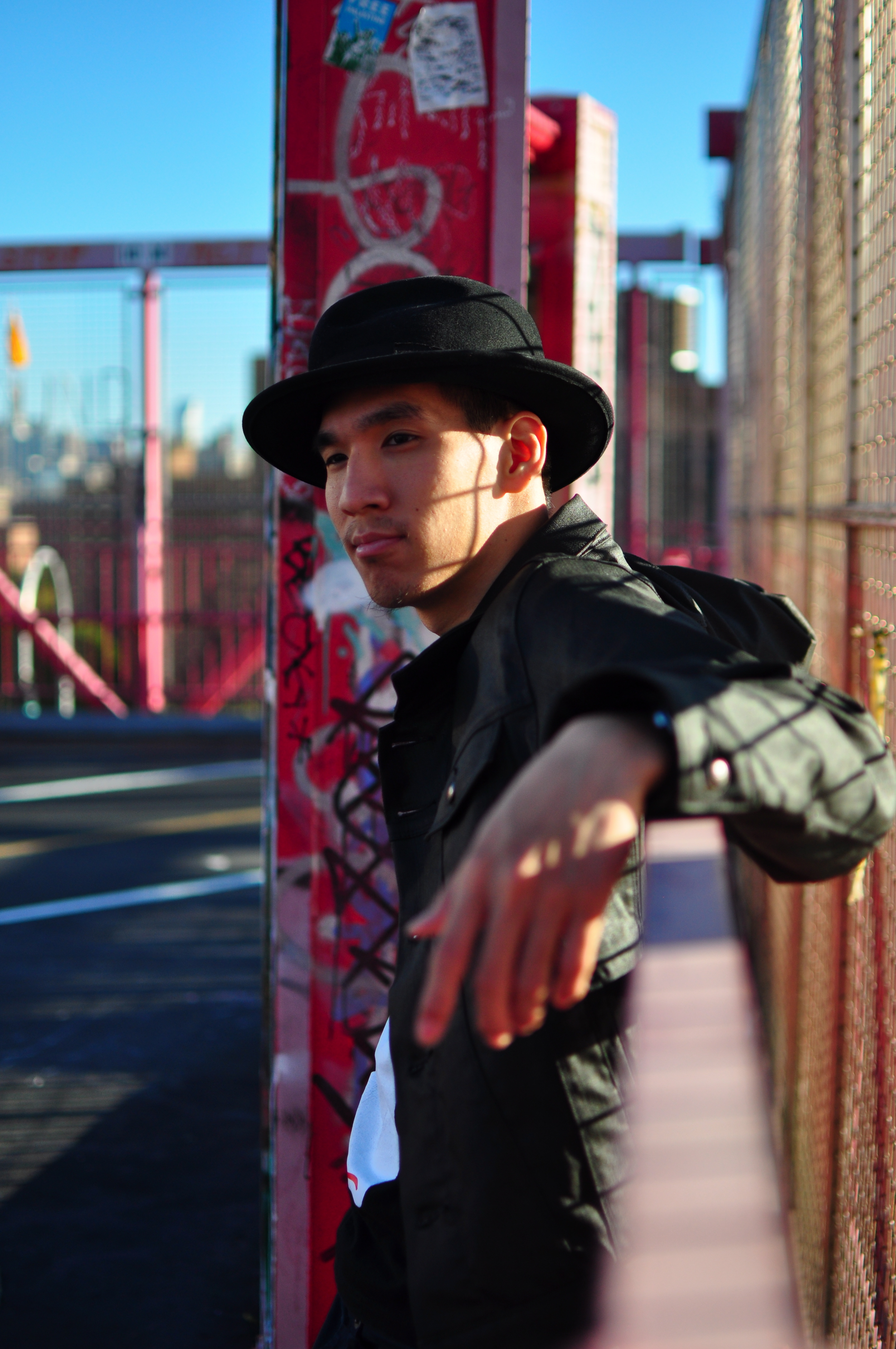 Jason Tom NYC Photoshoot 2010